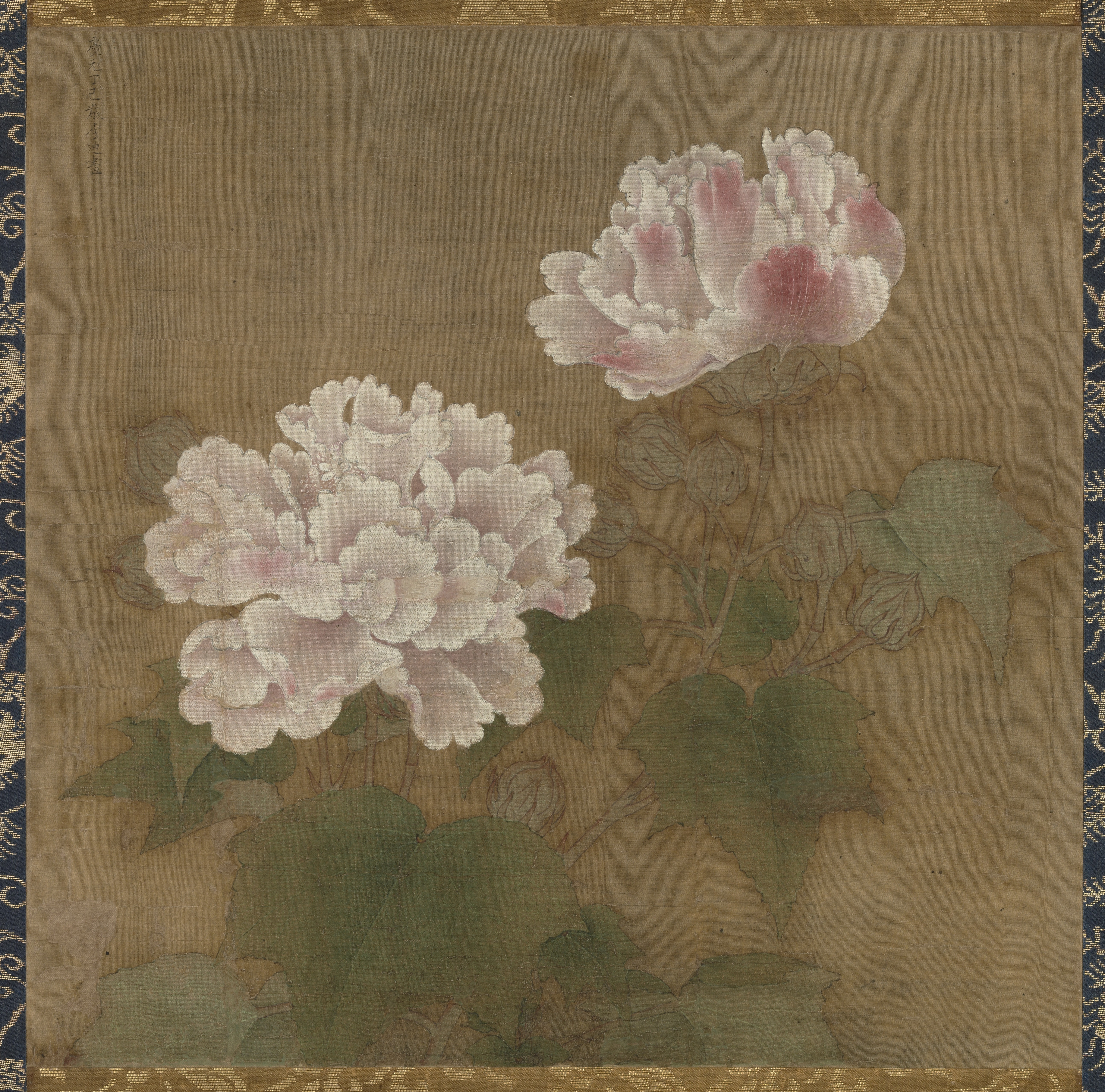 Red hibiscuses, part of the set: Red and white hibiscuses (Cotton Roses) (絹本著色紅白芙蓉図, kenpon chakushoku kōhaku fuyō zu) by Li Di. Set of two hanging scrolls, 25.2 cm x 25.5 cm each. Color on silk. Located at the Tokyo National Museum, Tokyo.